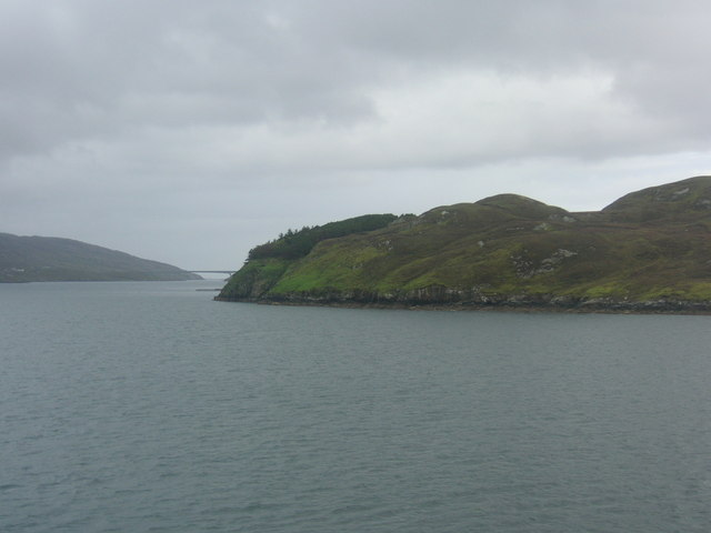 Sgeotasaigh / Scotsay in the Outer Hebrides of Scotland, as seen from the Tarbert to Uig ferry with the Scalpaigh / Scalpay bridge in the background.